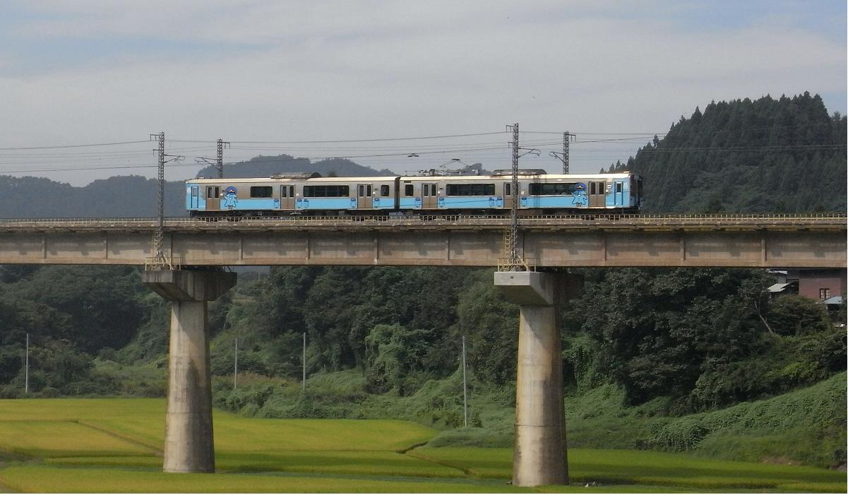 Aoimori Railway 701 series EMU on a local service (4522M) near Metoki Station